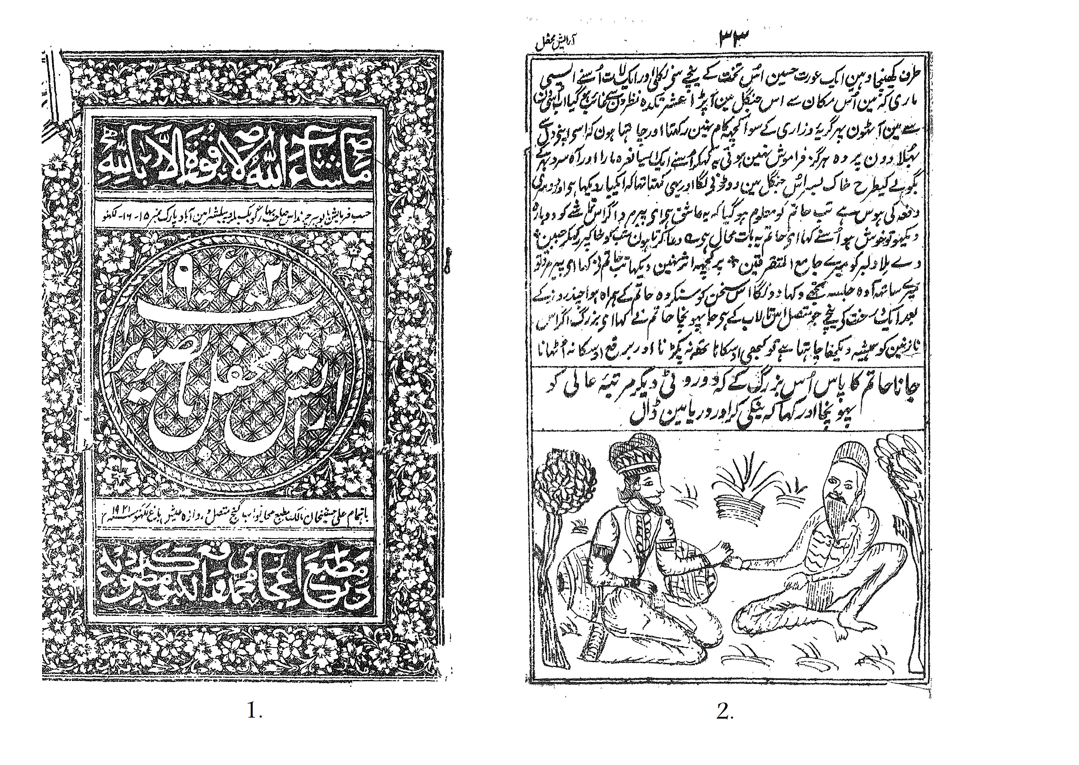 pages from the Urdu book Araish-e Mehfil (Qissa-e Hatim Tai) which describes the adventures of Hatim al-Tai. This illustrated copy was published in 1921. Description: 1. First page of the book 2. Page no. 33 of the book, which describes the famous 'neki kar daryaa mein daal' episode from Qissa-e Hatim Tai. The man dressed in a robe is a depiction of Hatim.